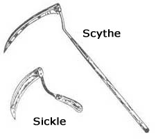 Sickle and scythe with labels.